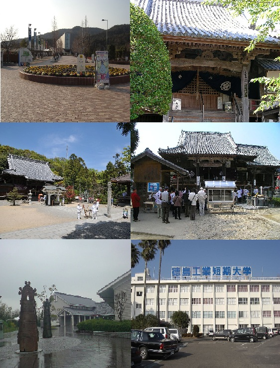 Itano Tokushima montage